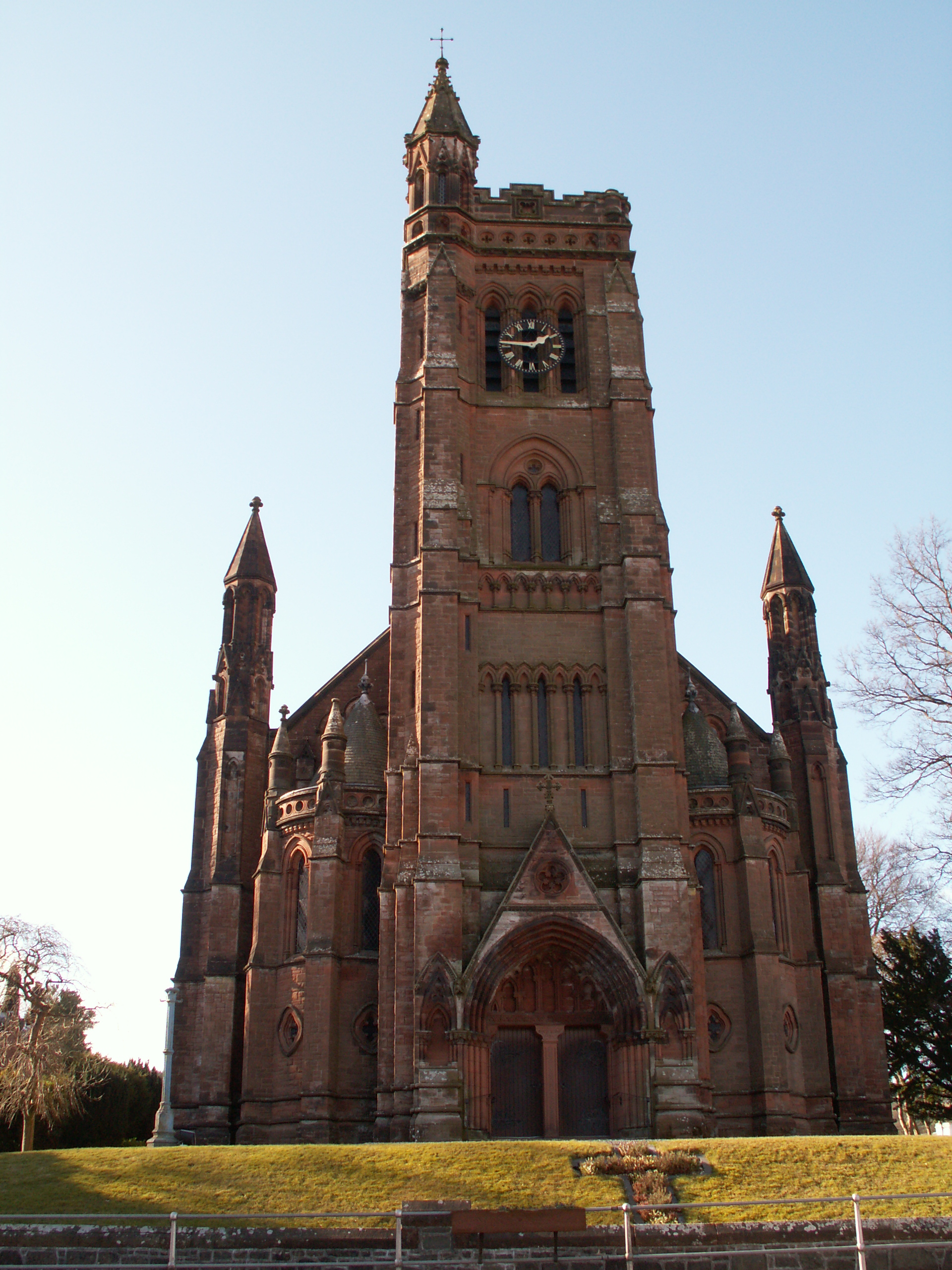 St Andrew's Church of Scotland, Church Gate Moffat